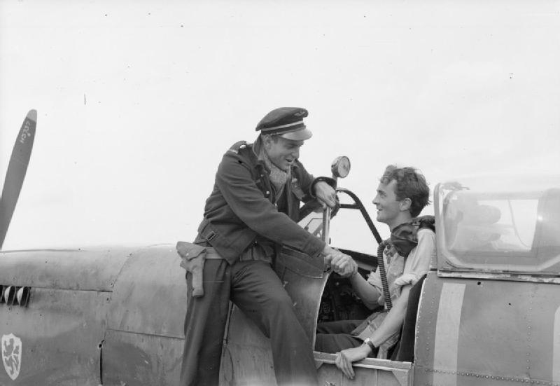 Royal Air Force- 2nd Tactical Air Force, 1943-1945. Sous-Lieutenant Pierre Clostermann (left) congratulates Flight Lieutenant K L Charney in the cockpit of his Supermarine Spitfire Mark IXB, on their return to B11/Longues, Normandy, after an evening sortie in which they each shot down a Focke Wulf Fw 190. Both pilots were serving with No. 602 Squadron RAF.